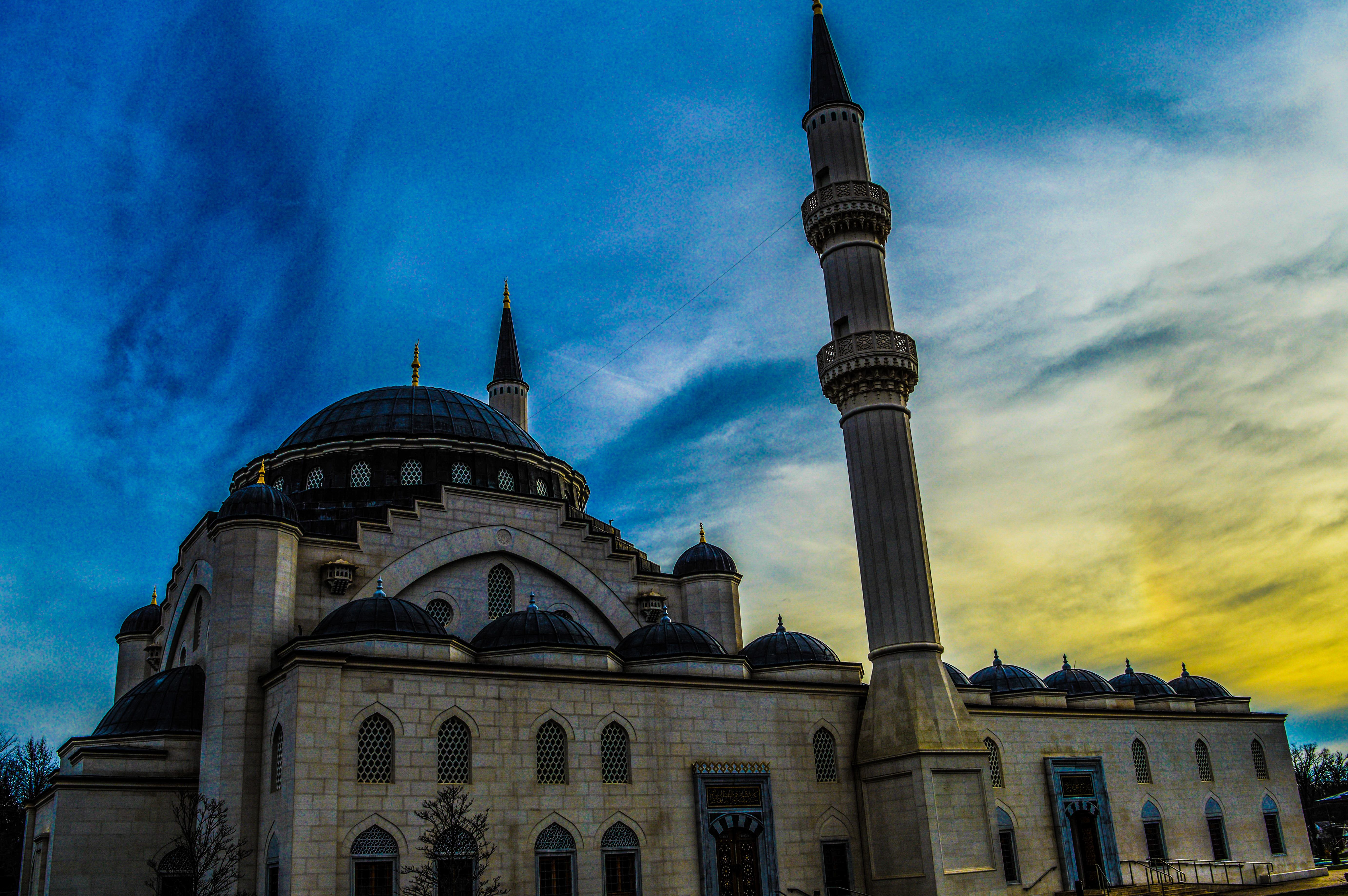 Architectural concept